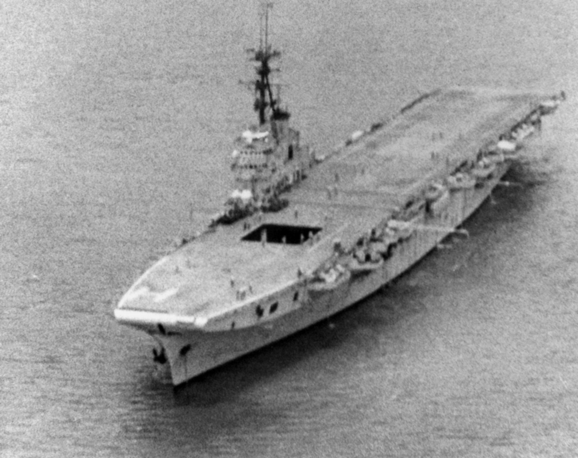 The French carrier Arromanches (R95) at anchor in Tourane Bay (Da Nang), Indochina, in 1953-1954.